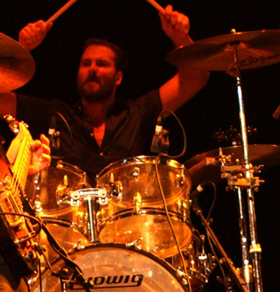 Hamish Rosser performing with Wolfmother at Sydney Entertainment Centre in 2012.